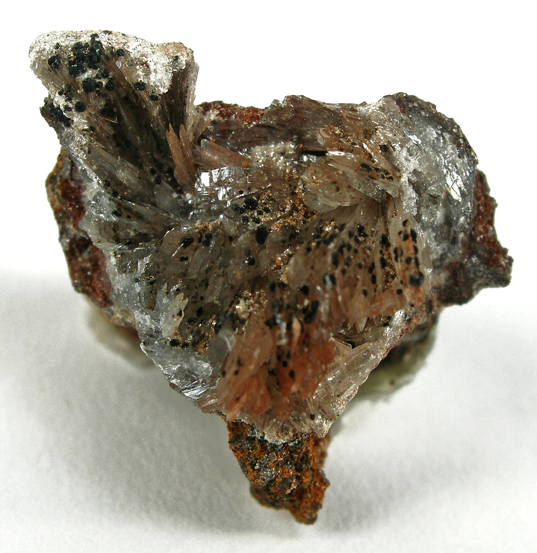 Alamosite, Melanotekite Locality: Tsumeb Mine (Tsumcorp Mine), Tsumeb, Otjikoto (Oshikoto) Region, Namibia (Locality at ) Size: thumbnail, 1.9 x 1.9 x 1.5 cm Alamosite with Melanotekite Superb, translucent, lathelike crystals of alamosite make the bulk of this specimen, which is a major thumbnail example of the species and, aside from a few freak specimens, is of a pretty good quality as well. The black specks are melanotekite, though there may also be other minerals in association here which I am not identifying. Alamosite in good crystals is one of the more uncommon of Tsumeb rarities, and seldom seen for sale (at any price, but usually very high, when priced). From an old German collection, such pieces are rarely seen on the market today.